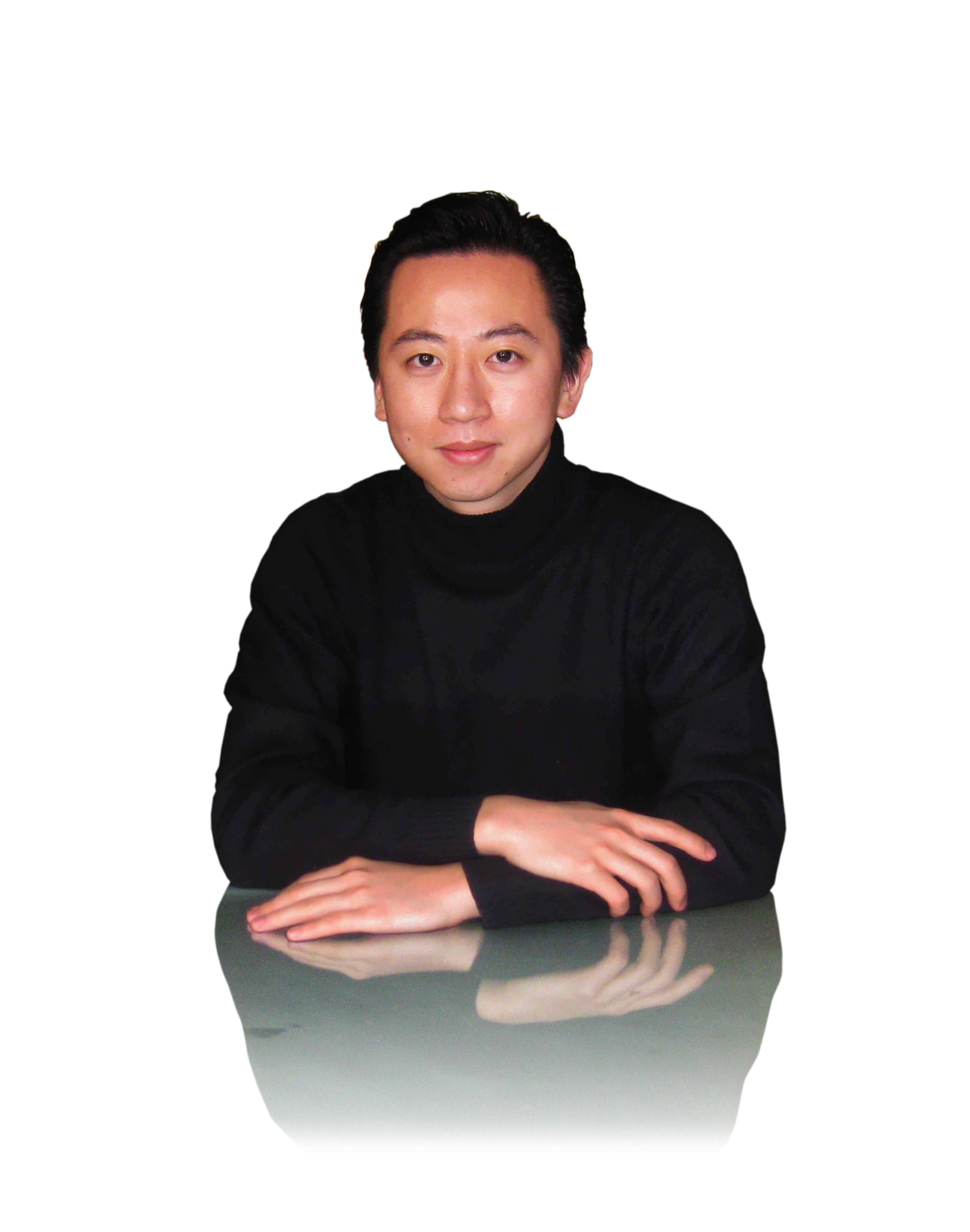 Bill Tan headshot